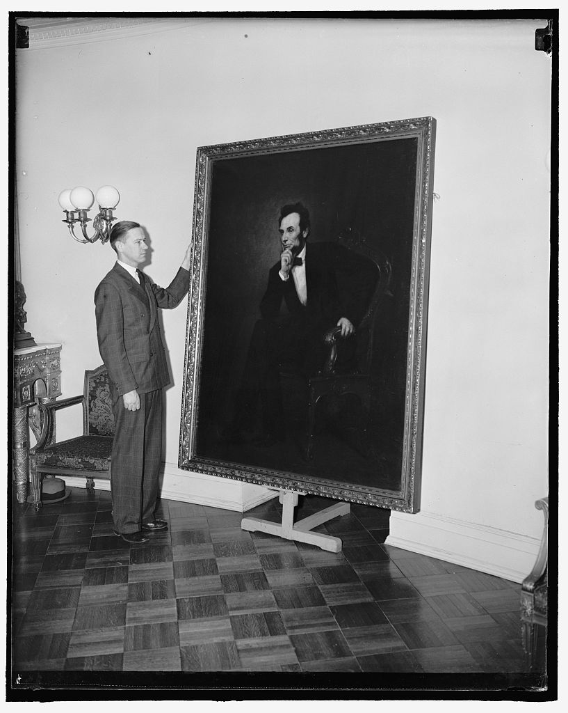 White House gets Lincoln portrait through will of Mrs. Robert Todd Lincoln. Washington, D.C., March 22. Through provisions of the will of the late Mrs. Robert Todd Lincoln who died in 1937, a portrait of Lincoln painted by G.P.A. Healy was to become the property of her daughter, Mary Lincoln Isham, and following her death to be offered to the U.S. Government, provided that it be hung in the White House. Through executors of the will, the White House accepted the painting and it was today delivered to Capt. Howard Ker U.S. Engineer Corps, in charge of buildings and grounds at the White House. Capt. Ker is shown with the Healy portrait. 3-22-39